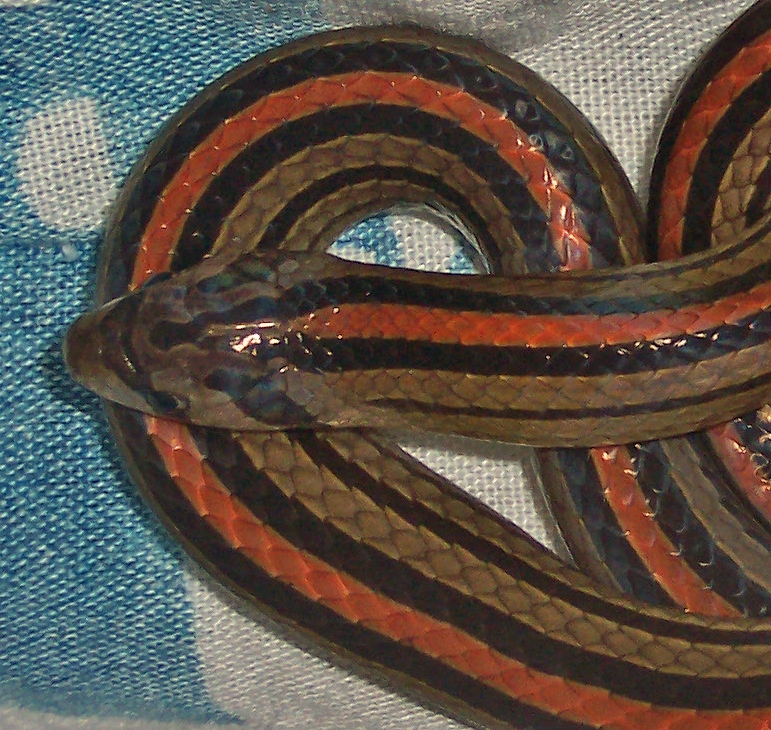 Striped Kukri Snake Oligodon octolineatus, head close-up. From Bogor, West Java, Indonesia